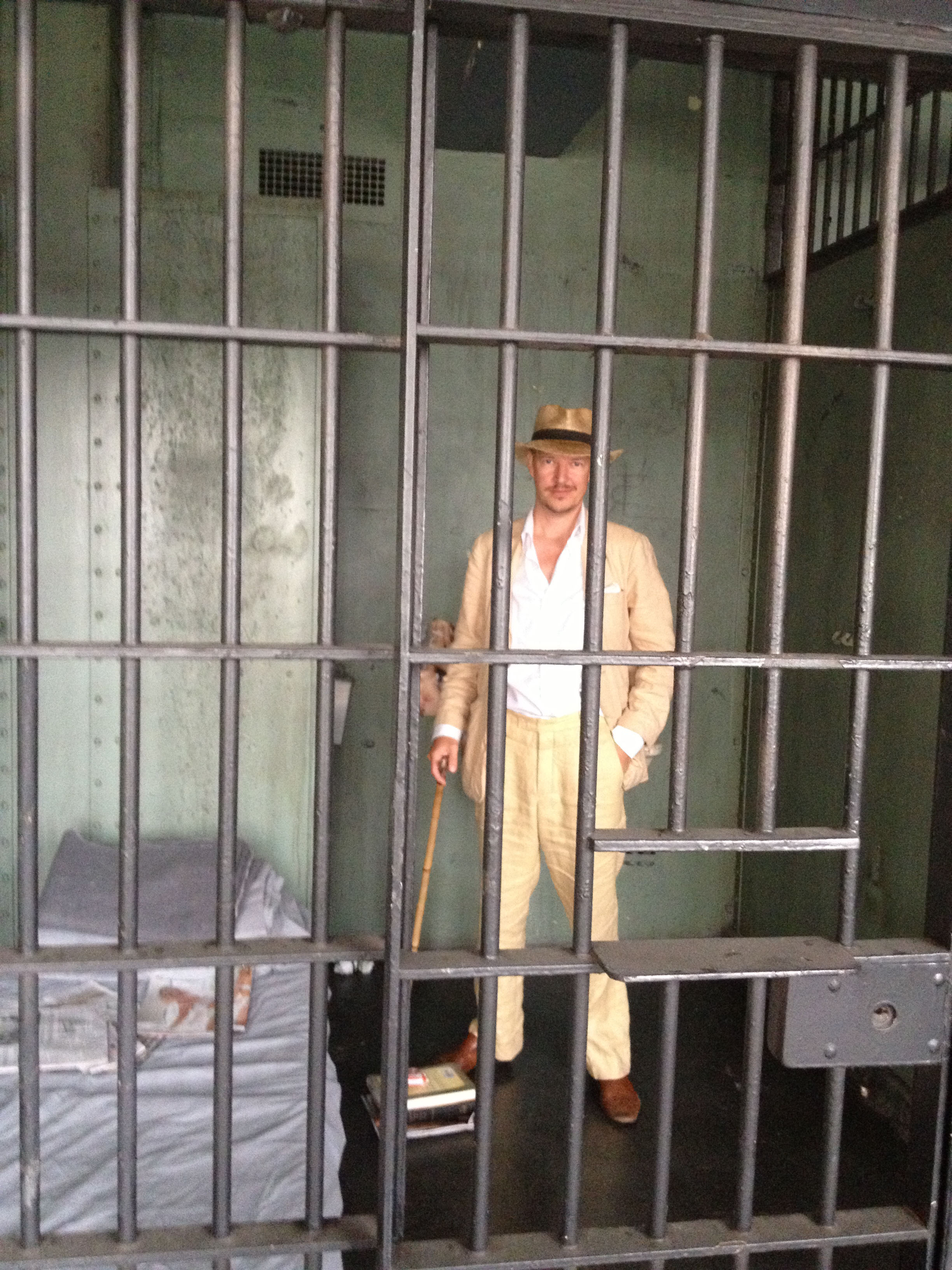 Tom Six prison